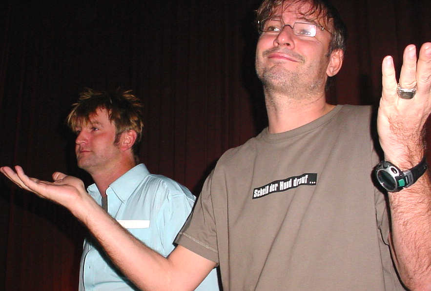 German film and theater directors and actors Leander Haußmann and Detlev Buck at 2003 Biberach Film Festival